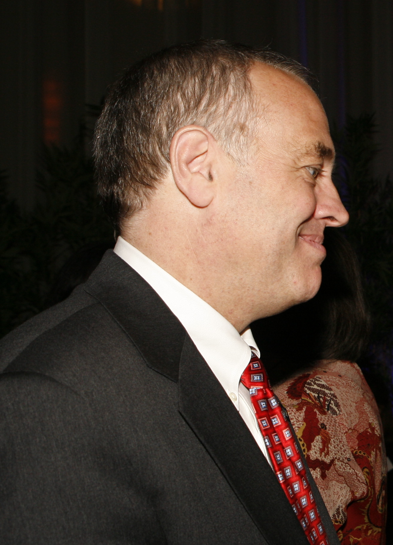 Thomas DiNapoli.